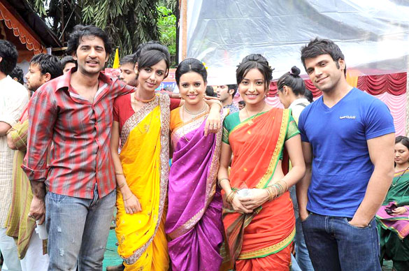 The Cast of Pavitra Rishta on the sets of their show.